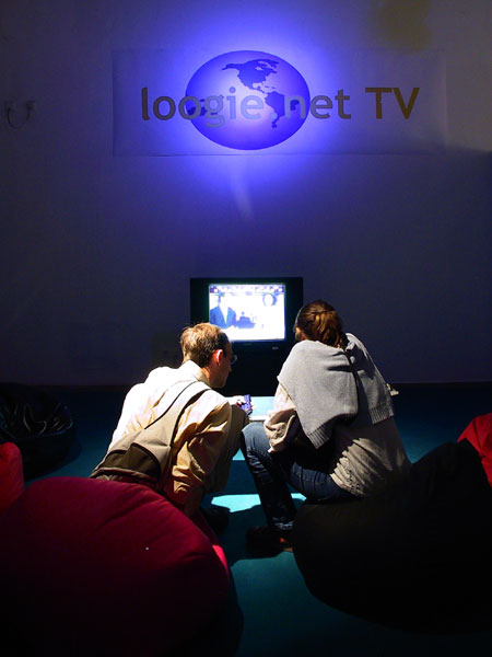 TV - Be the first to know! Interactive Net Installation, work in progress